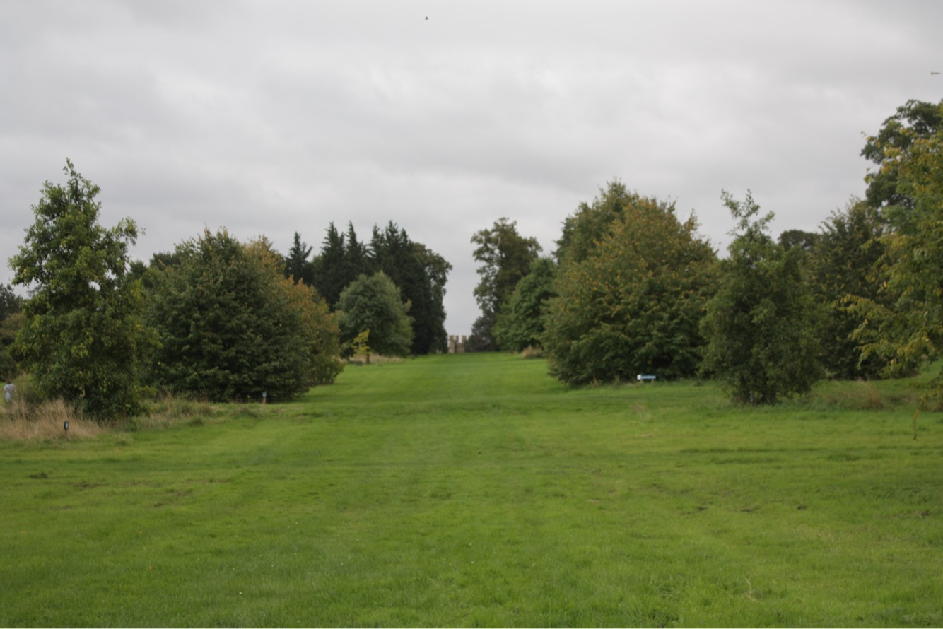 Yorkshire Arboretum - 'Main Vista' viewed from near the lake